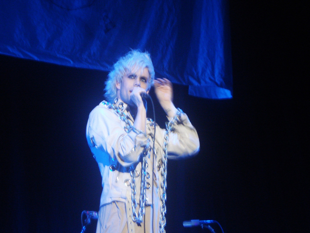 The Semi Precious Weapons performing on Lady Gaga's The Monster Ball Tour.